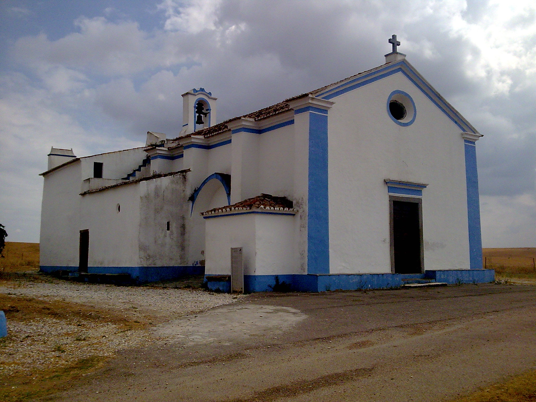 St Suzana's Church